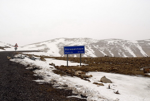 Road sign of Güresentepe Pass